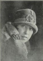 A young white woman in 1927, wearing a hat low across her brow and a high-collared fur coat or shawl.